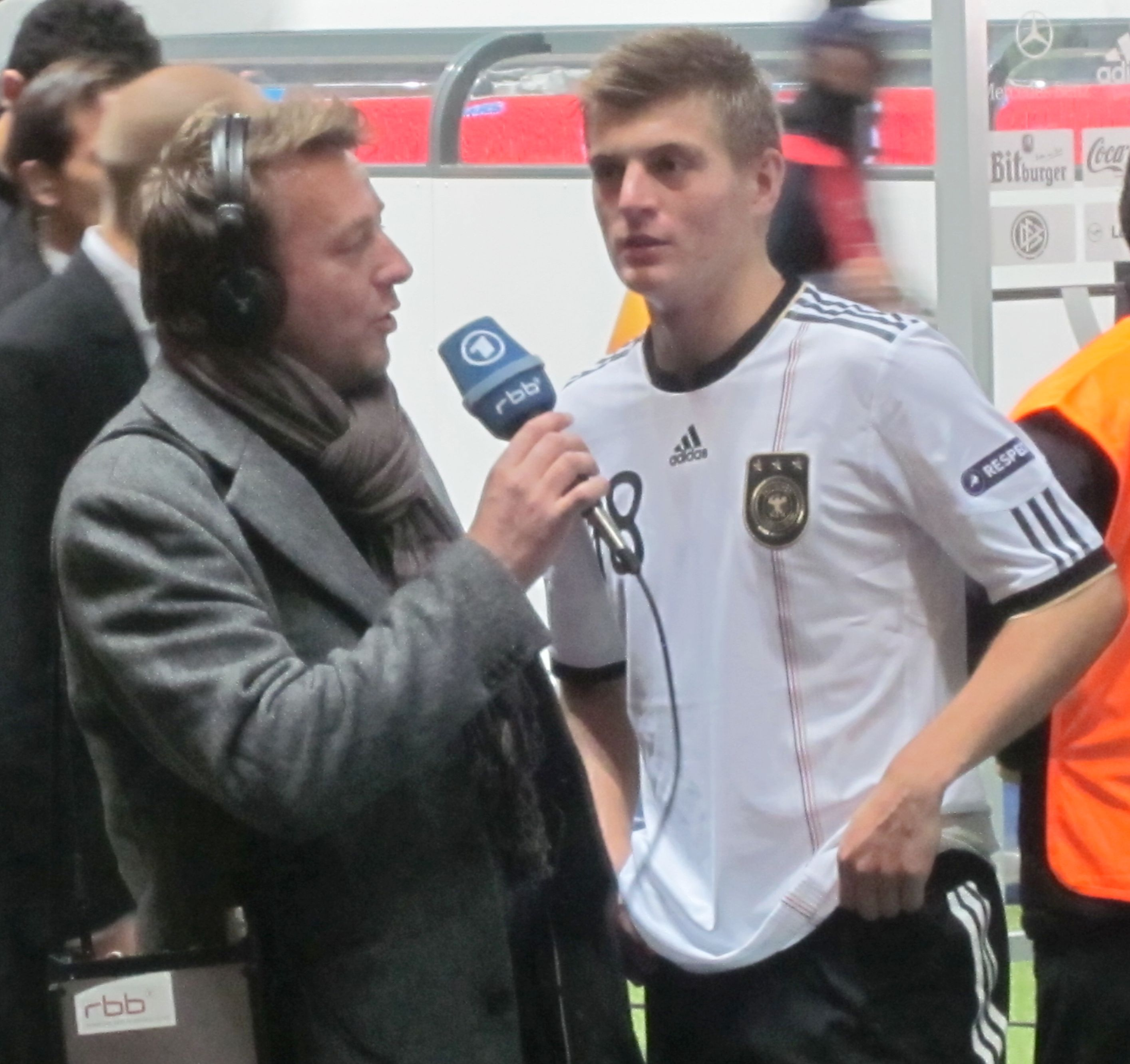 Toni Kroos during an interview after the international match Germany-Turkey (3:0) on October 20, 2010, at the Olympic Stadium in Berlin.